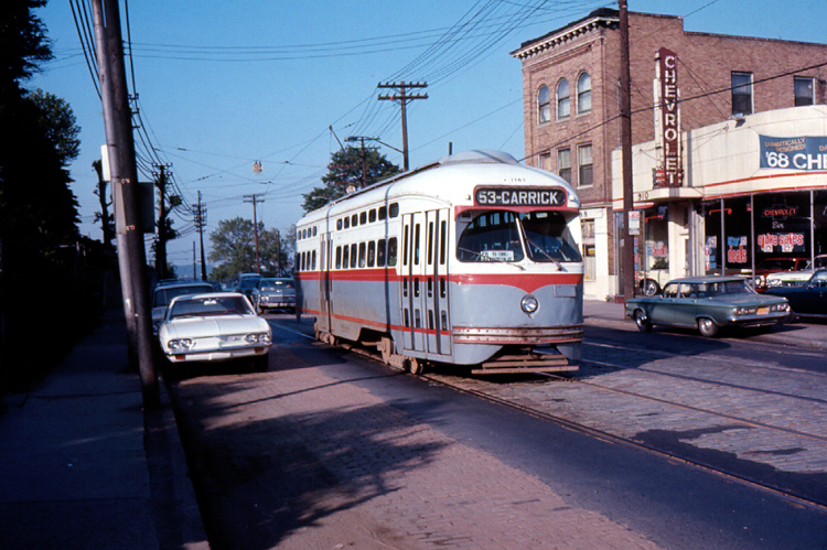 Scan of a photo that I've made myself in Pittsburgh in the 1967. PCC on the line 53 - CARRICK